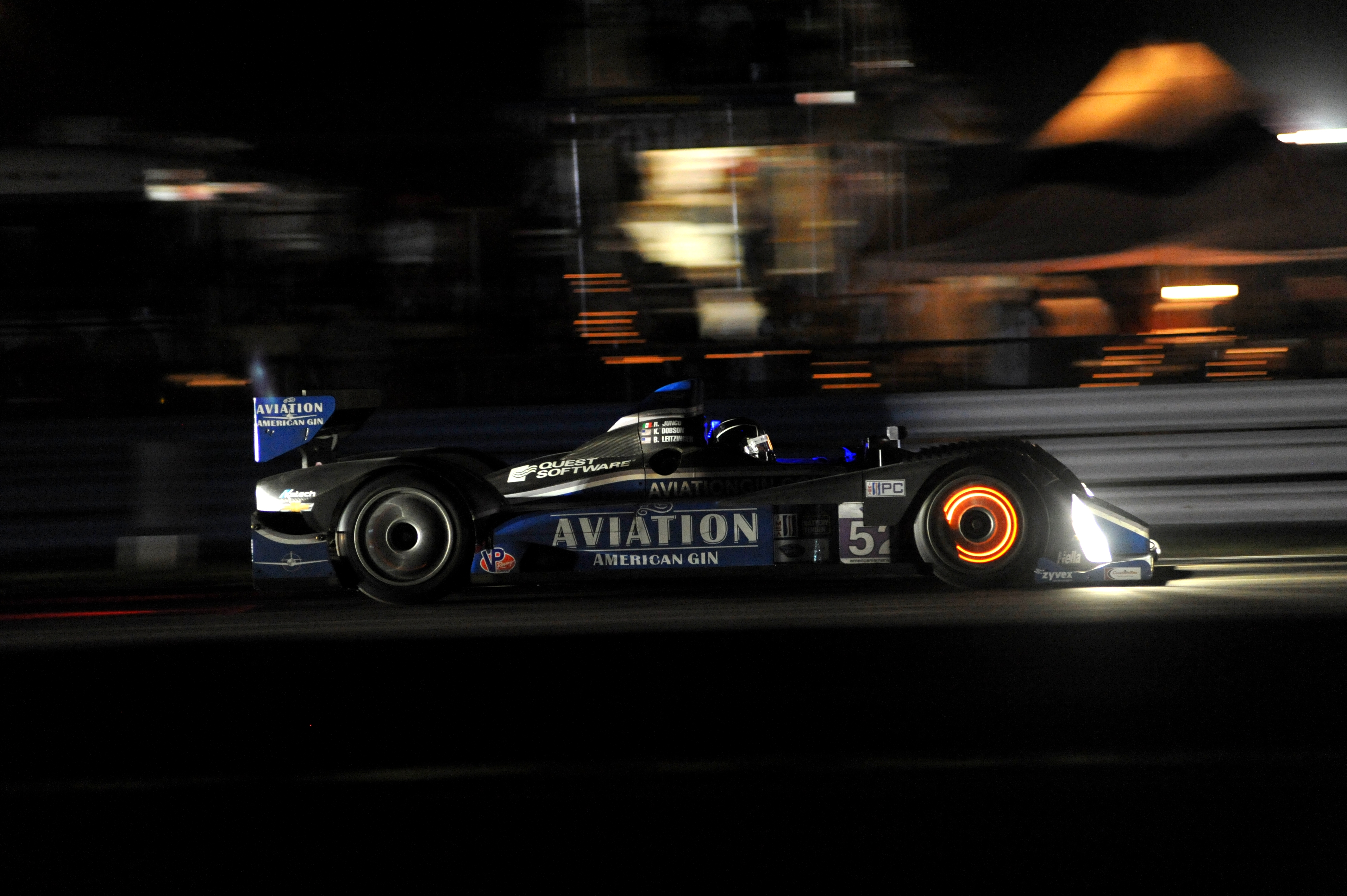 Butch Leitzinger at the 2012 12 Hours of Sebring driving the #52 PC for PR1/Mathiasen Motorsports. The discs for the front brakes are red hot due to braking to make it into the next turn.